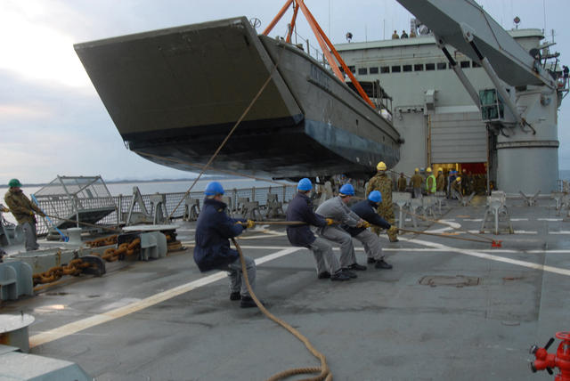 Australian sailors of HMAS Kanimbla (LPA 51) work to hoist an Australian landing craft (LCM8) back onto the ship following ship-to-shore operations for exercise Talisman Sabre 2007 in Shoalwater Bay, Australia, June 22, 2007. The biennial exercise is des igned to train Australian and U.S. forces in planning and conducting combined task force operations, which will help improve combat readiness and interoperability. (U.S. Navy photo by Mass Communication Specialist 2nd Class Adam R. Cole) (Released) (Released to Public)